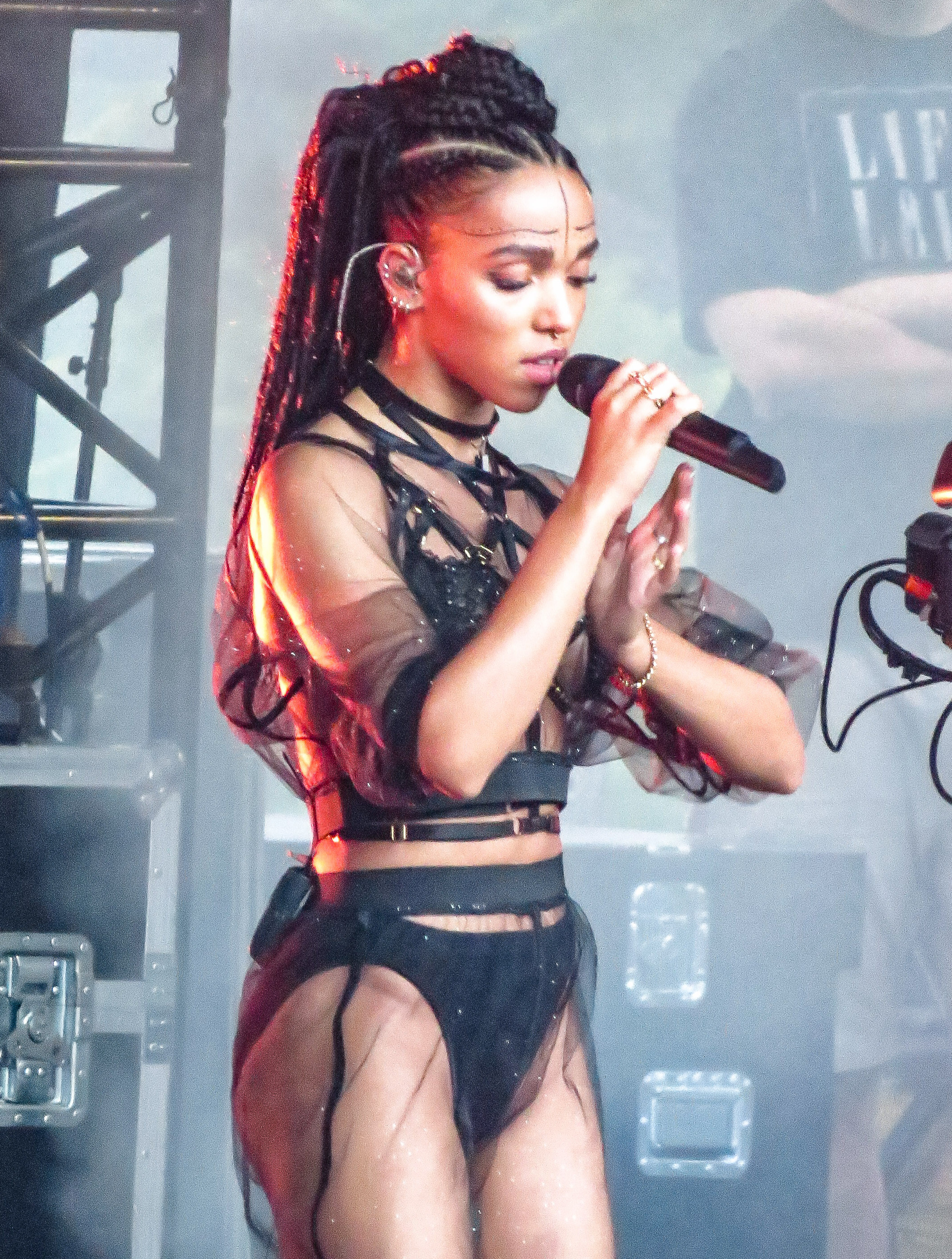 FKA twigs at Laneway Festival, Sydney on 31 January 2015.